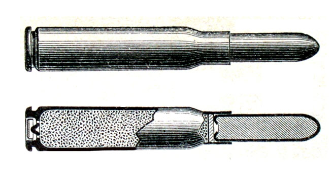 German cartridge M 88, 8 x 57 I (Infantry)